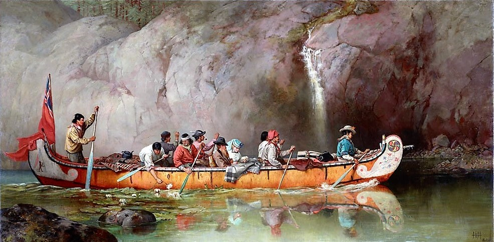 Scene showing a large Hudson's Bay Company freight canoe passing a waterfall, presumably on the French River. The passengers in the canoe may be the artist and her husband, Edward Hopkins, secretary to the Governor of the Hudson's Bay Company.